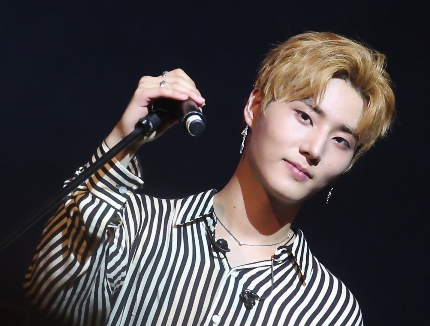 Young K attended Day6 Live & Meet in Taiwan , 2017